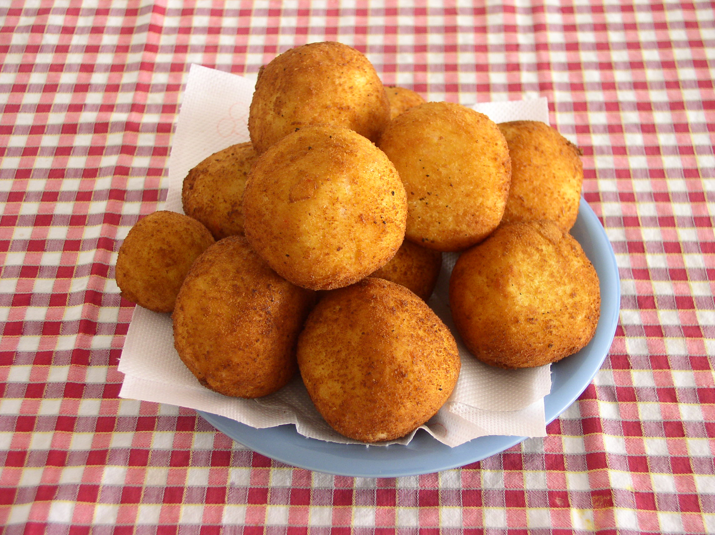 Arancini. Author: G. Melfi